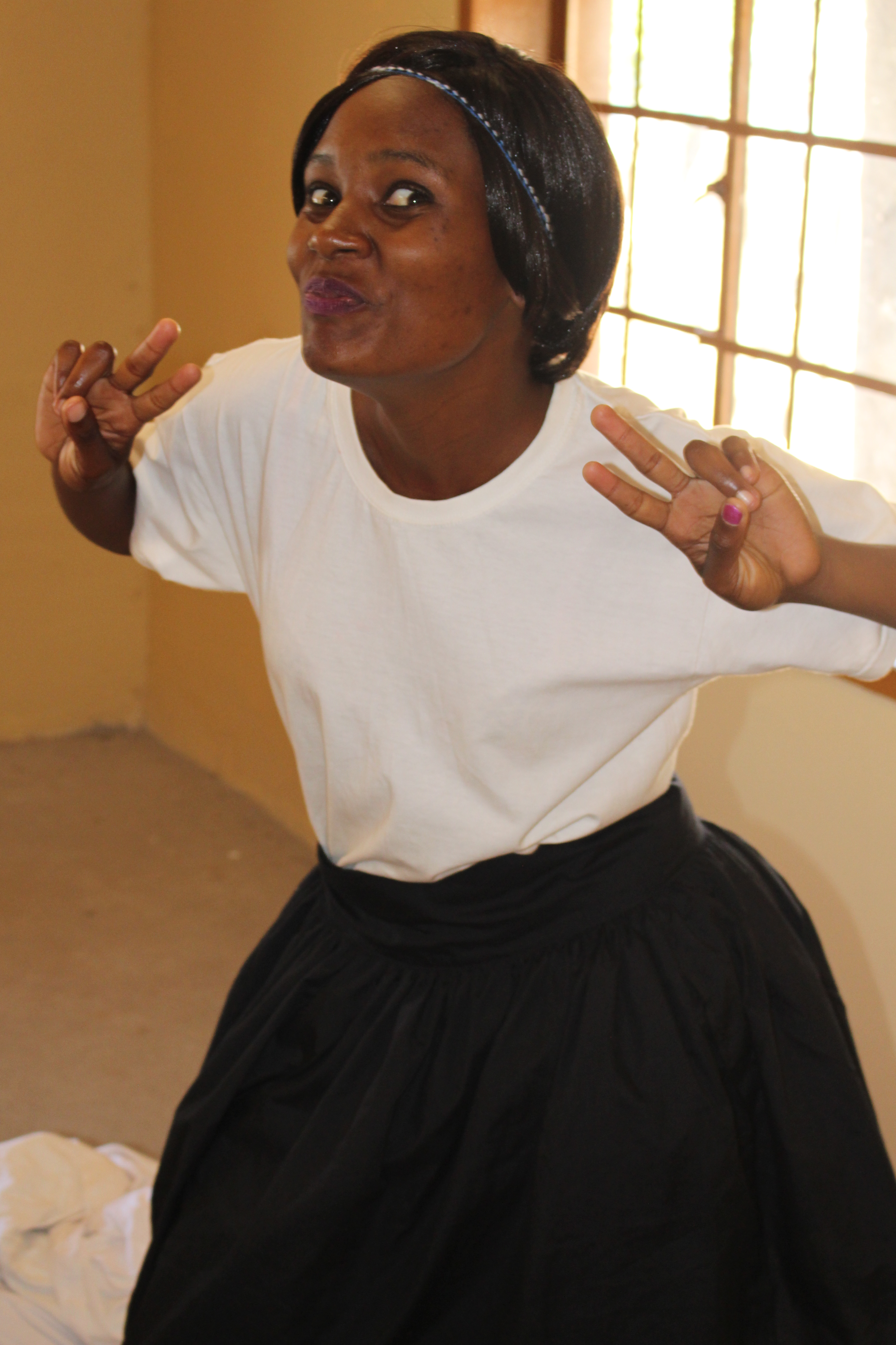 Kalanga traditional group at a wikipedia Meeting